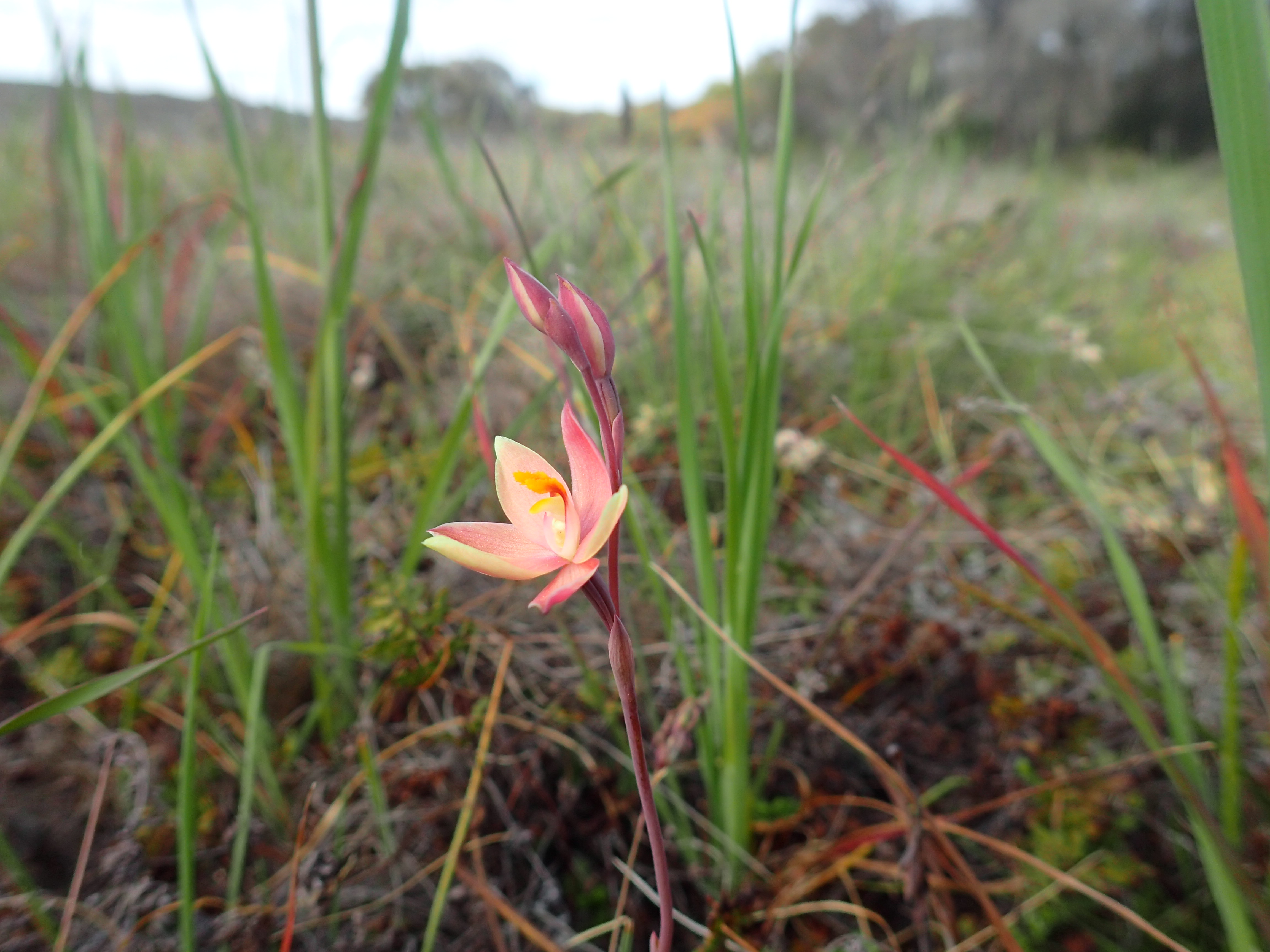 Whole specimen of Thelymitra maculata